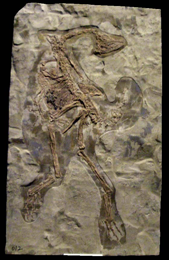 Caudipteryx zoui fossil replica displayed in Hong Kong Science Museum